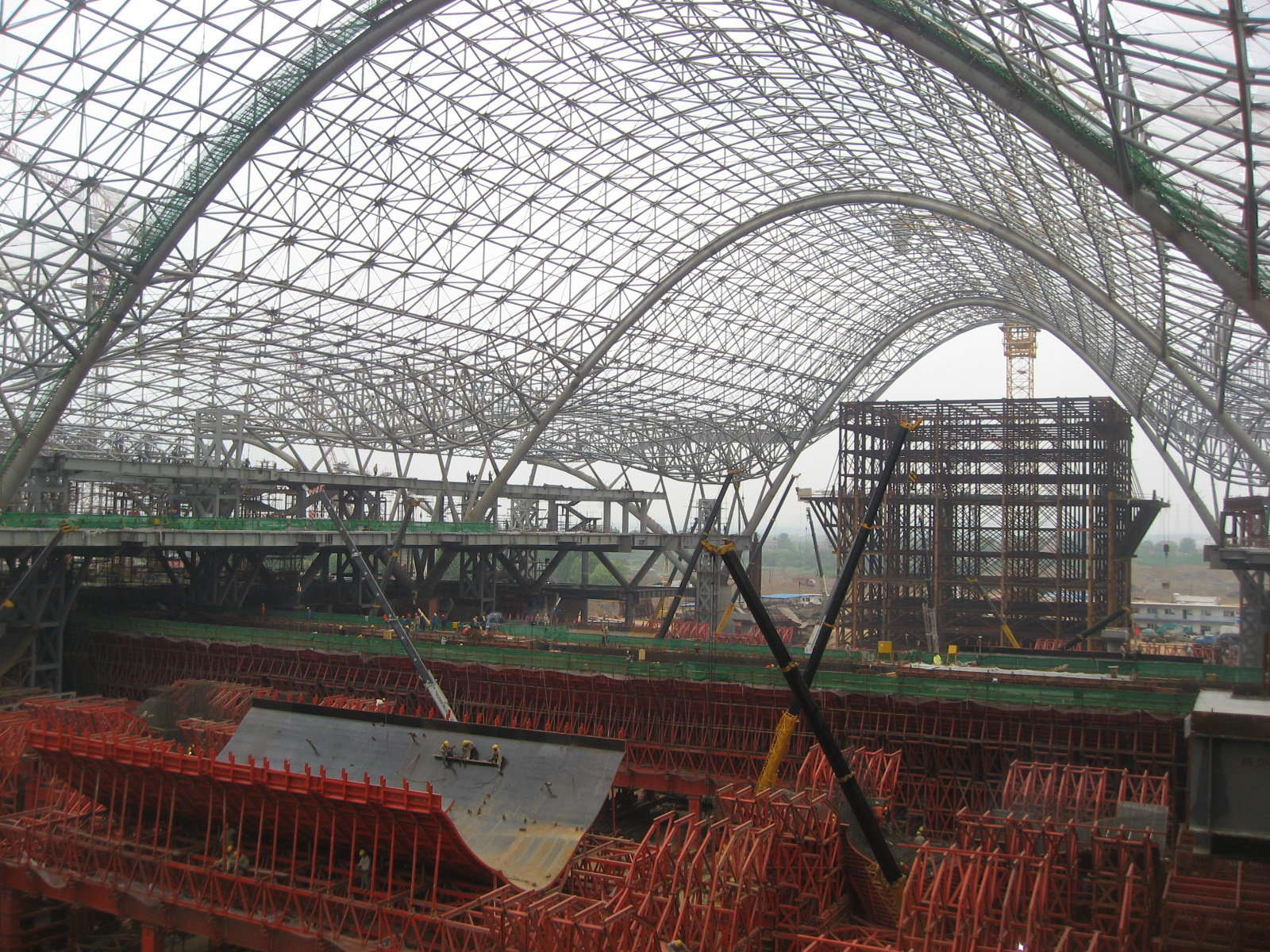 New Wuhan Railway Station - Steel structure in construction